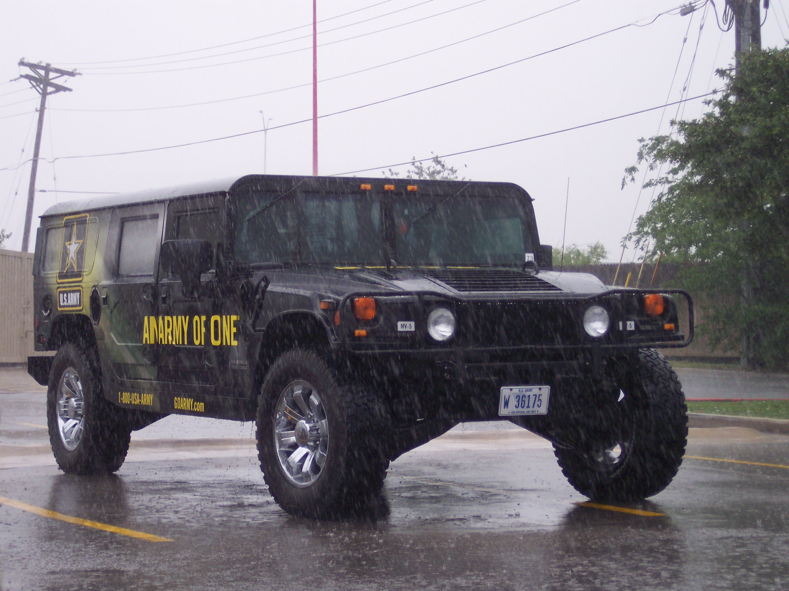 A humvee exhibits the United States Army slogan, "AN ARMY OF ONE", amid a thunderstorm in Central Texas.